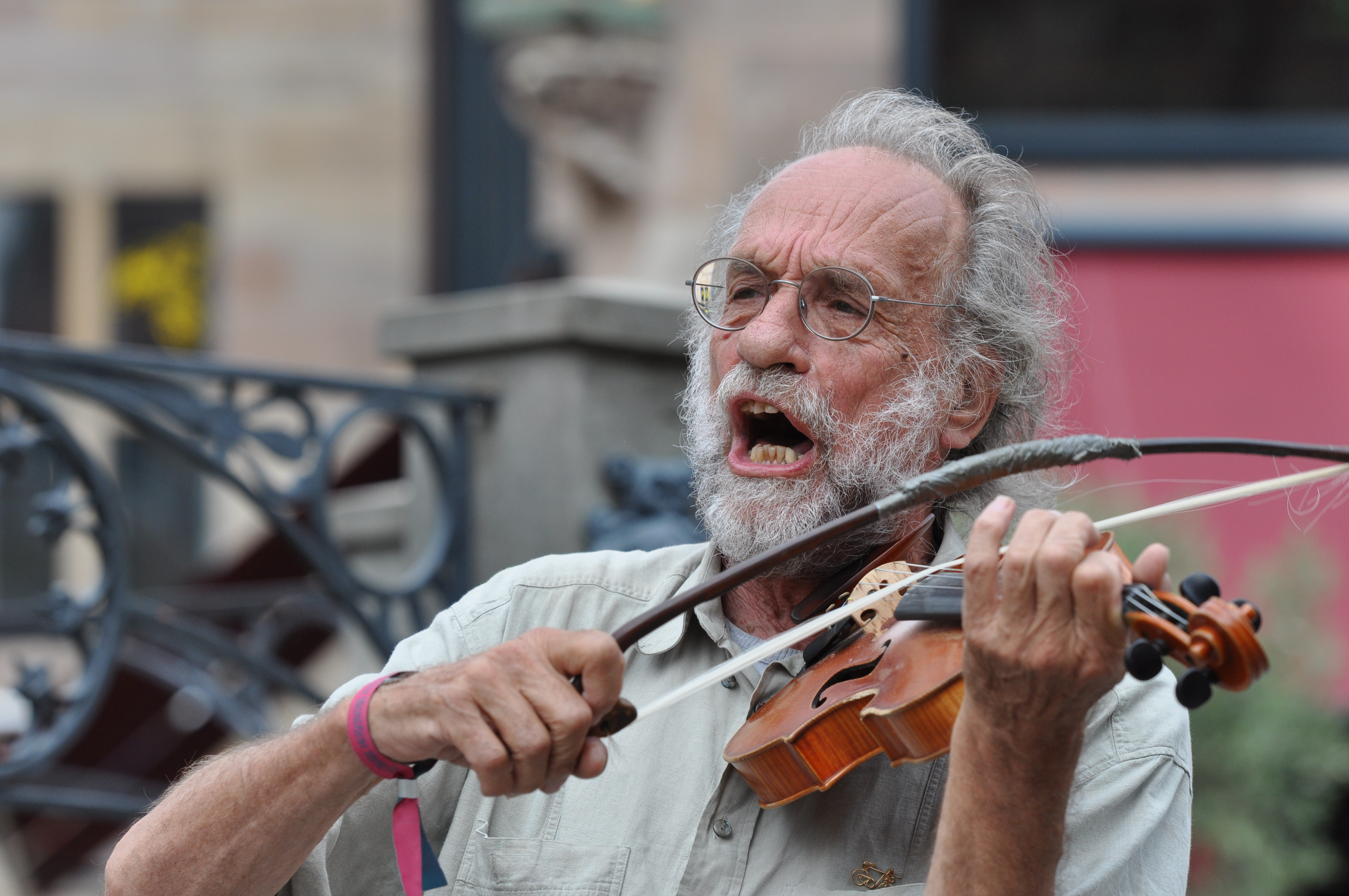 Klaus the Fiddler (Germany), appearance at the 39th music festival "Bardentreffen" 2014 in Nuremberg, Germany, street music / busking